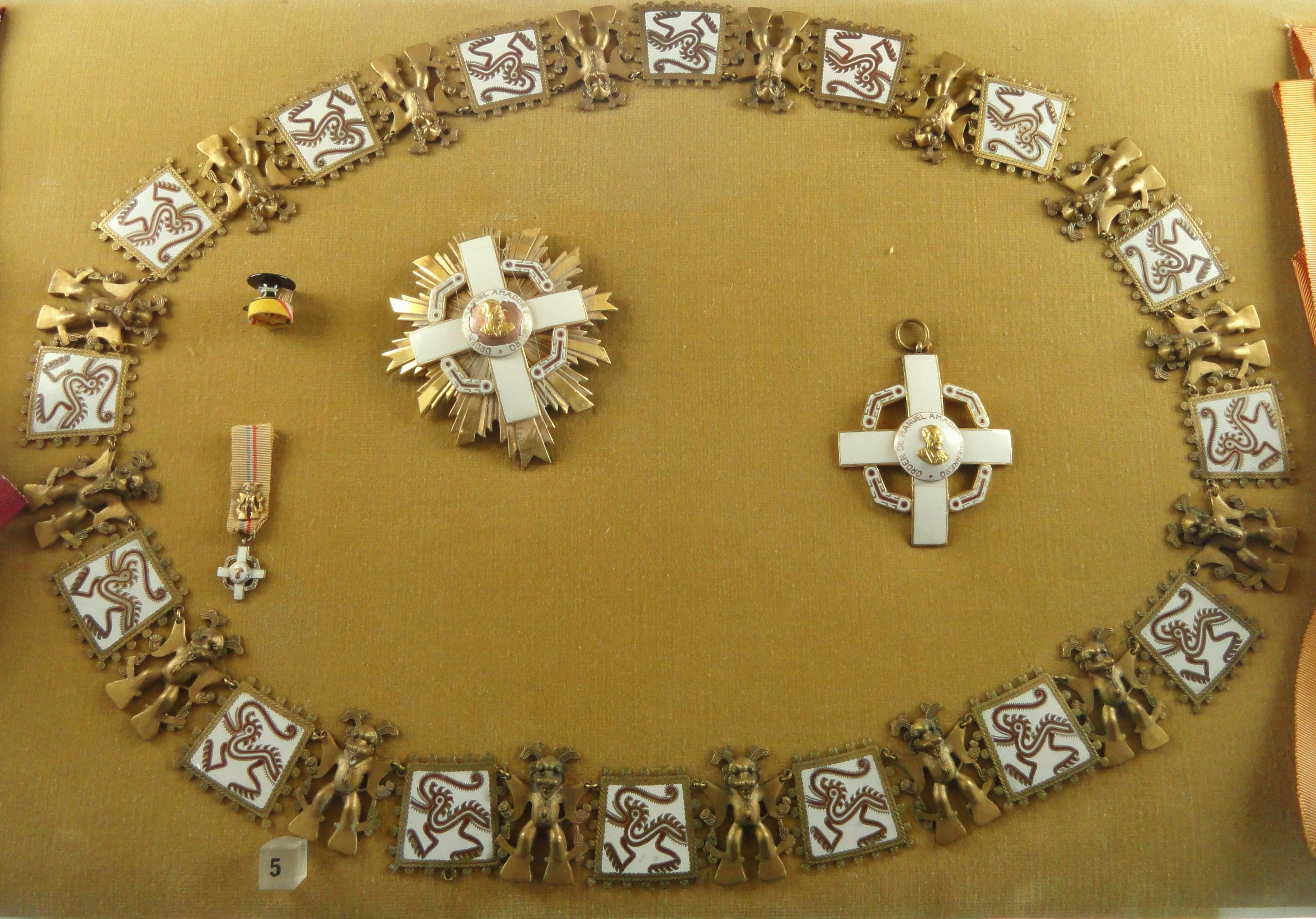 IExhibit in the Memorial JK, Brasília, Brazil.